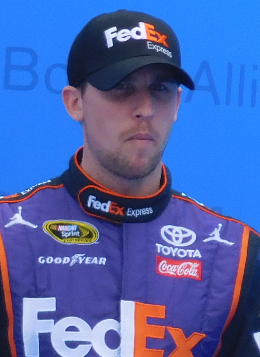 Denny Hamlin during driver introductions before the 2016 Daytona 500. Hamlin would later win the race.